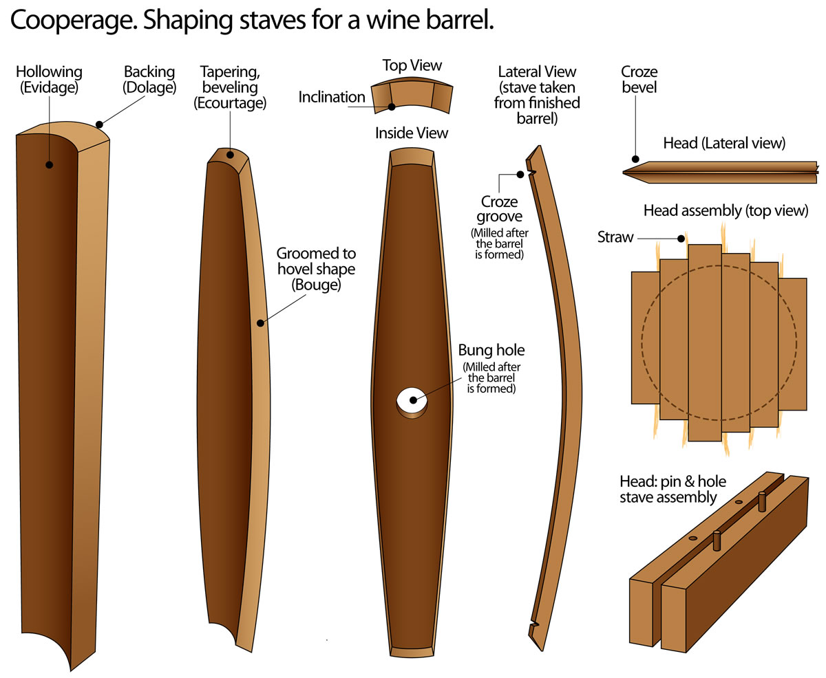 Step by step process of shaping individual staves and heads for the production of oak wine barrels.